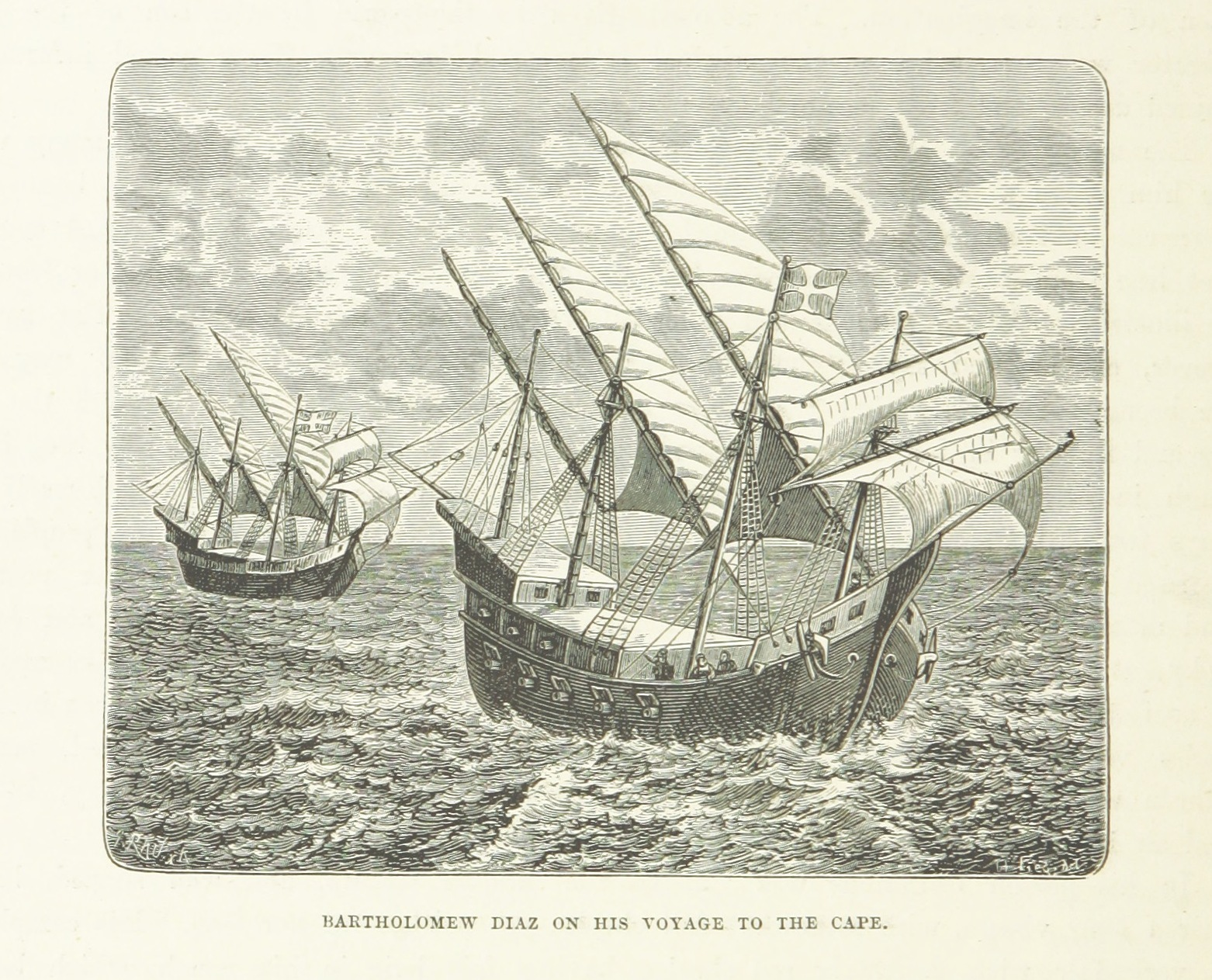 An 1887 illustration of Bartolomeu Dias' two caravels, the São Cristóvão and the São Pantaleão.